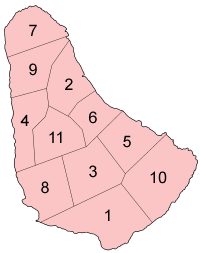 Map of the parishes of Barbados, numbered in English (native language) alphabetical order. Christ Church Saint Andrew Saint George Saint James Saint John Saint Joseph Saint Lucy Saint Michael Saint Peter Saint Philip Saint Thomas